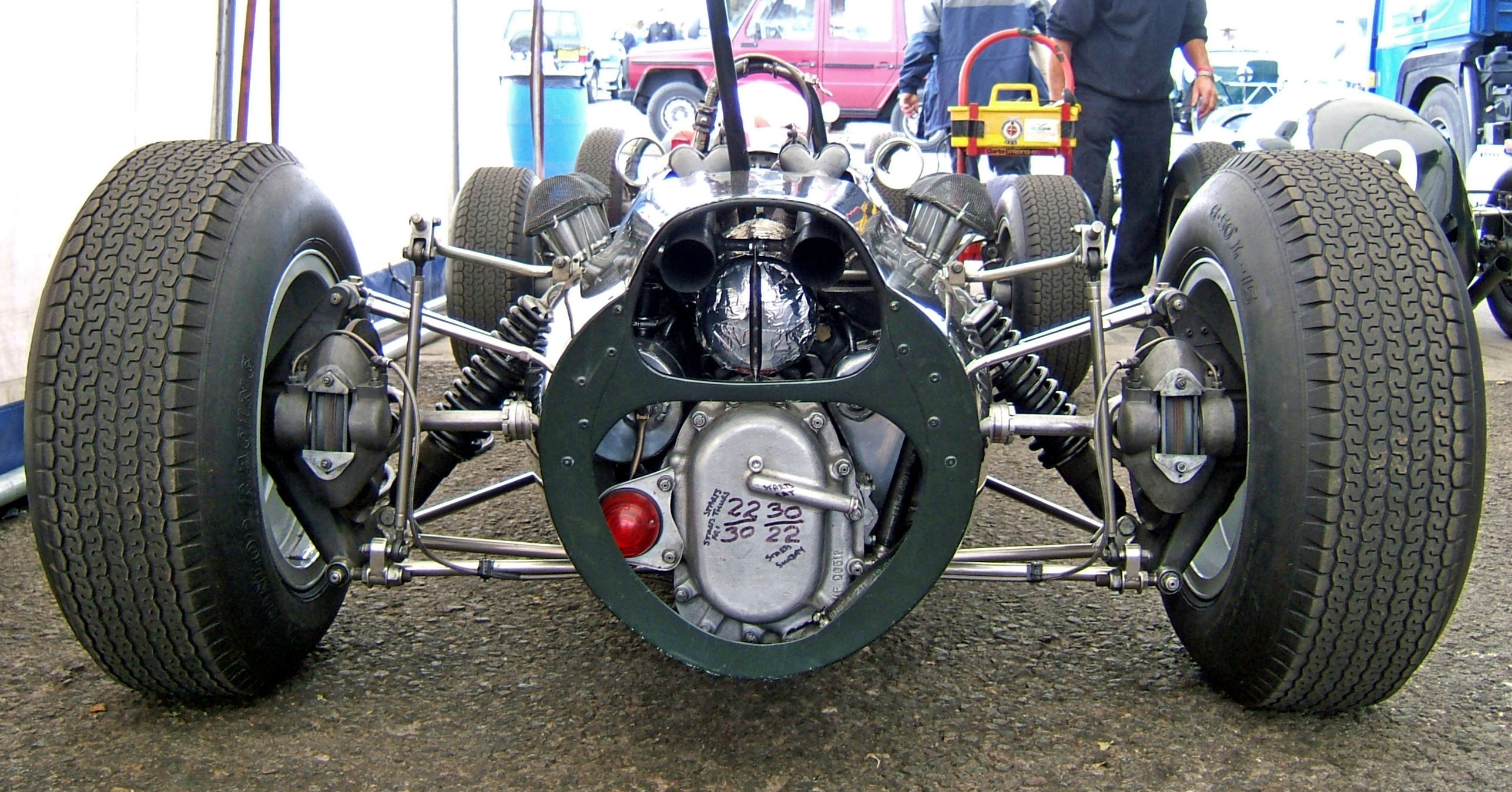 Staring up the exhaust pipes of Richard Attwood's BRM P261 Formula One car, in the paddock of the VSCC SeeRed race meeting, Donington Park, September 2007.